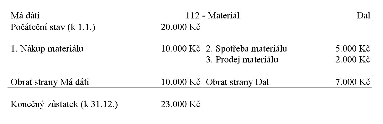 Example of account (accounting) in czech.